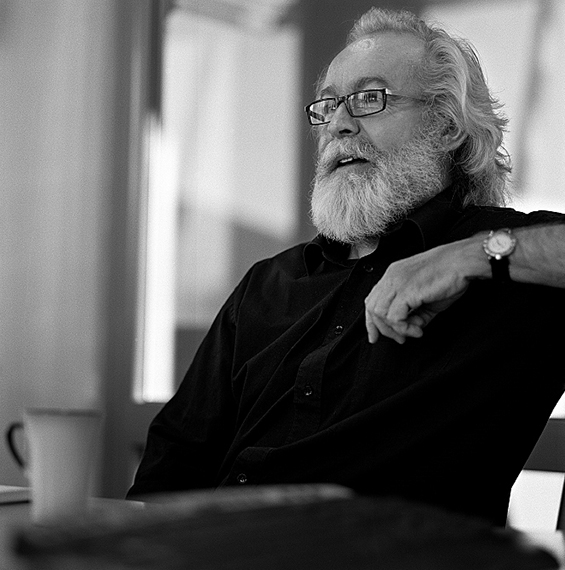 Portraited at work in Molde Depicted person: Kjell Kosberg – Norwegian architect